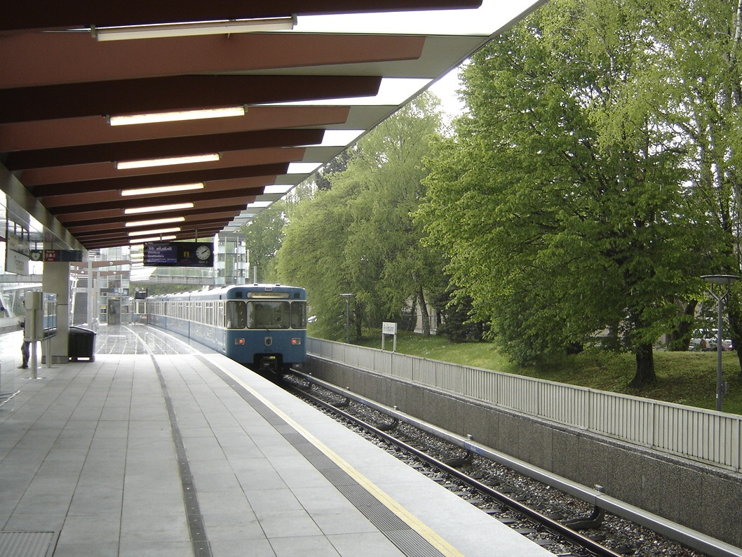 Munich Underground, Line U6, Freimann